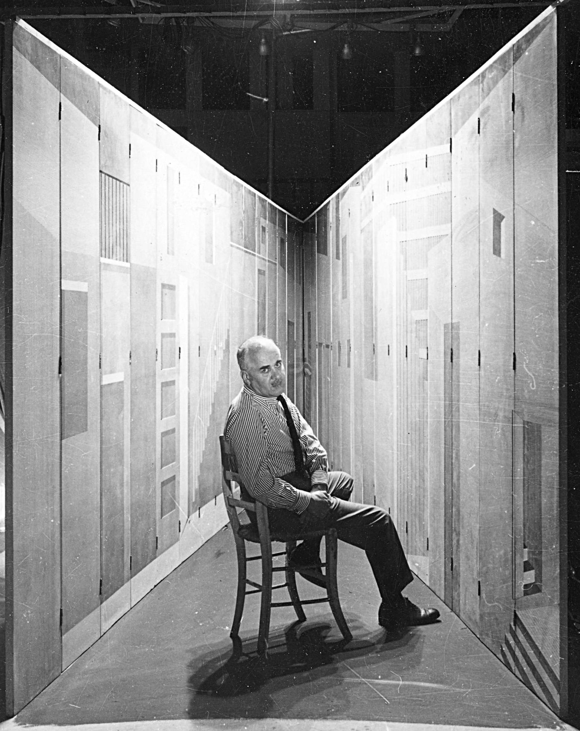 Photograph of the Italian artist Piero Fornasetti sitting in his La Stanza Metafisica.